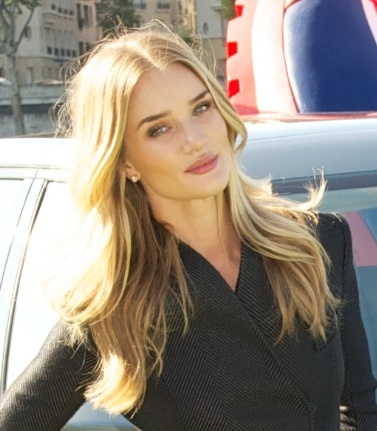 2015 Land Rover Discovery Sport revealed in Paris. A pair of Discovery Sport vehicles performed a dramatic dynamic debut aboard a giant barge on the River Seine to mark the arrival of the brand’s new premium compact SUV.